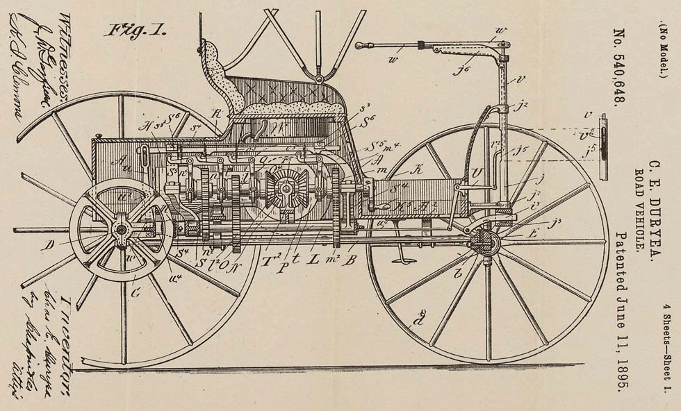 Patent Drawing for the Duryea Road Vehicle, 06/11/1895. This is the printed patent drawing of the road vehicle invented by Charles E. Duryea.